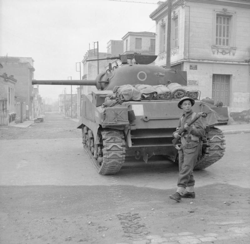 The British Army in Greece 1944 A rifleman acts as 'tail-end Charlie', guarding the commander of a Sherman tank from snipers during operations against ELAS in Athens, 18 December 1944.